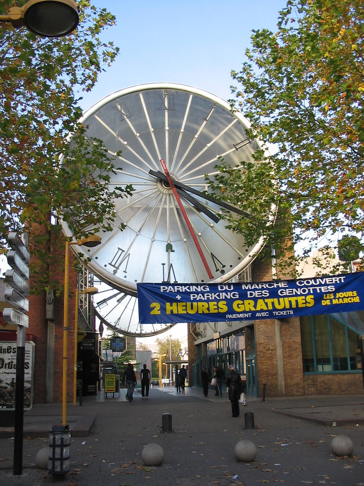 Place de l'Horloge in front of Cergy Saint-Christophe railway station, Cergy.